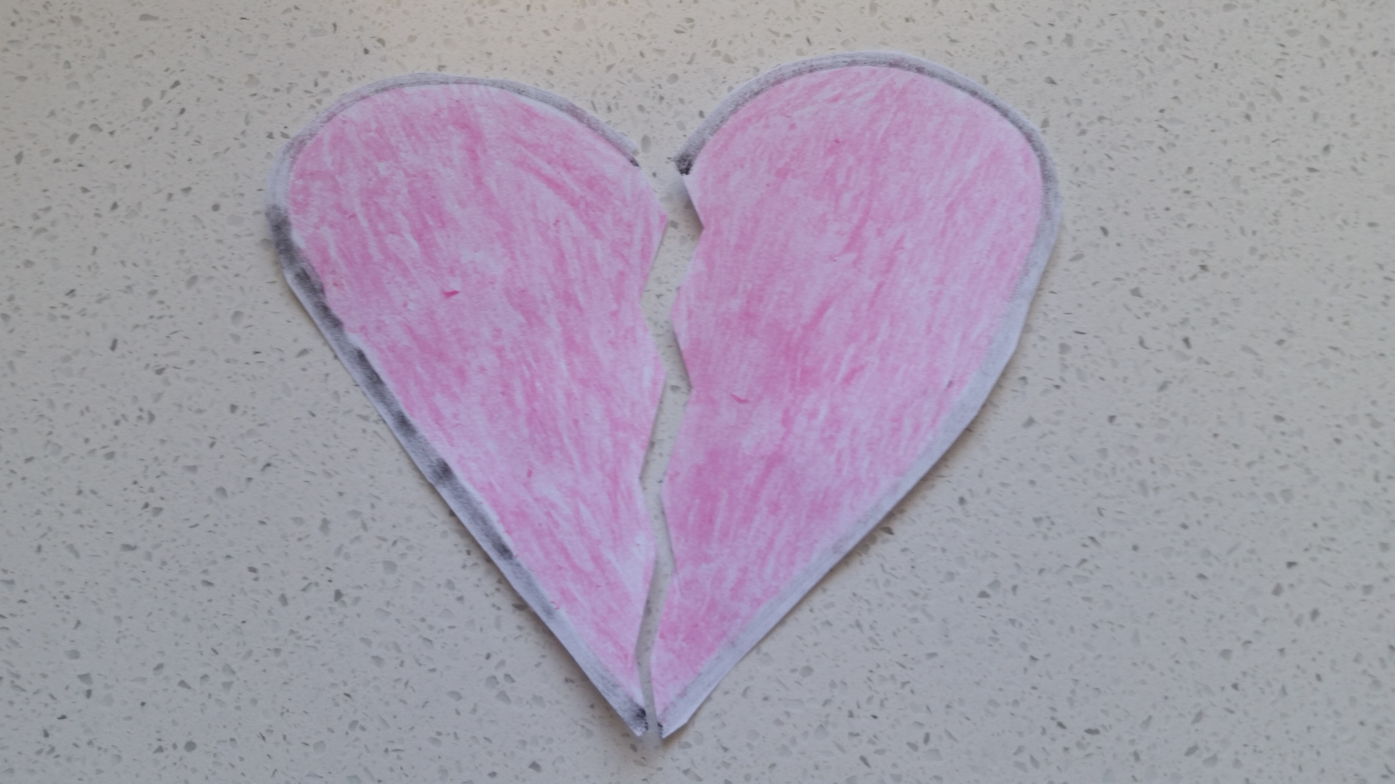 For the Broken heart page.